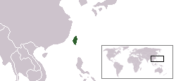 Location map for Taiwan (ROC).